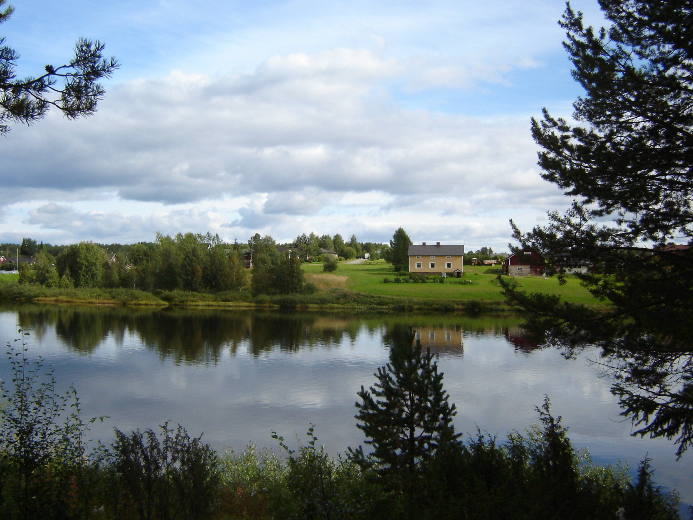 River Kitinen in the centre of Sodankylä, Lapland, Finland